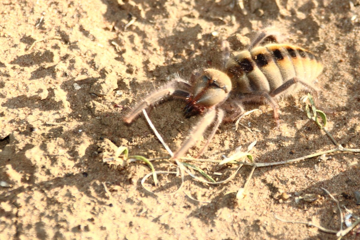 Sun spider from South Africa.